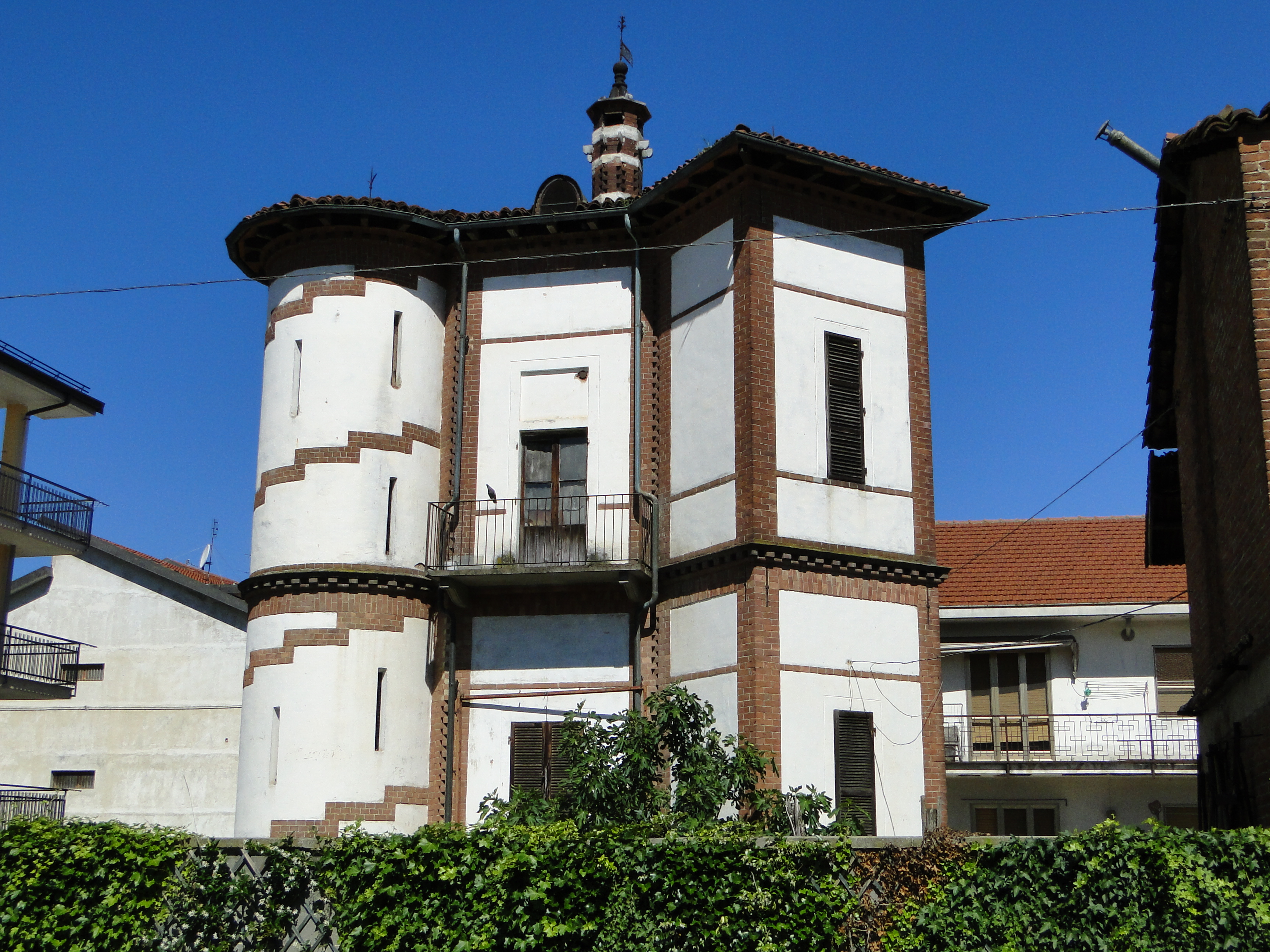 The so-called house in Vinovo: La Rotonda (19th century)